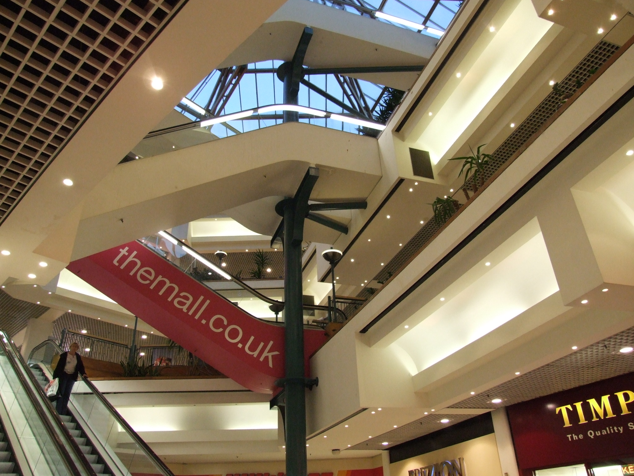 Inside the Chequers Shopping Mall. - Google Maps - Google Earth